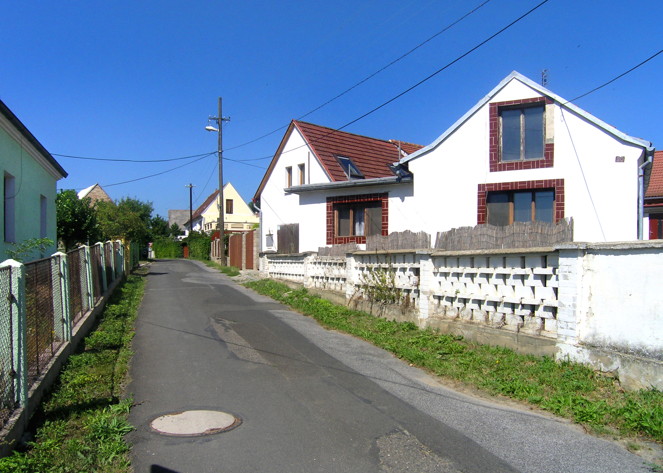 Podviní, part of Trnovany village, Czech Republic